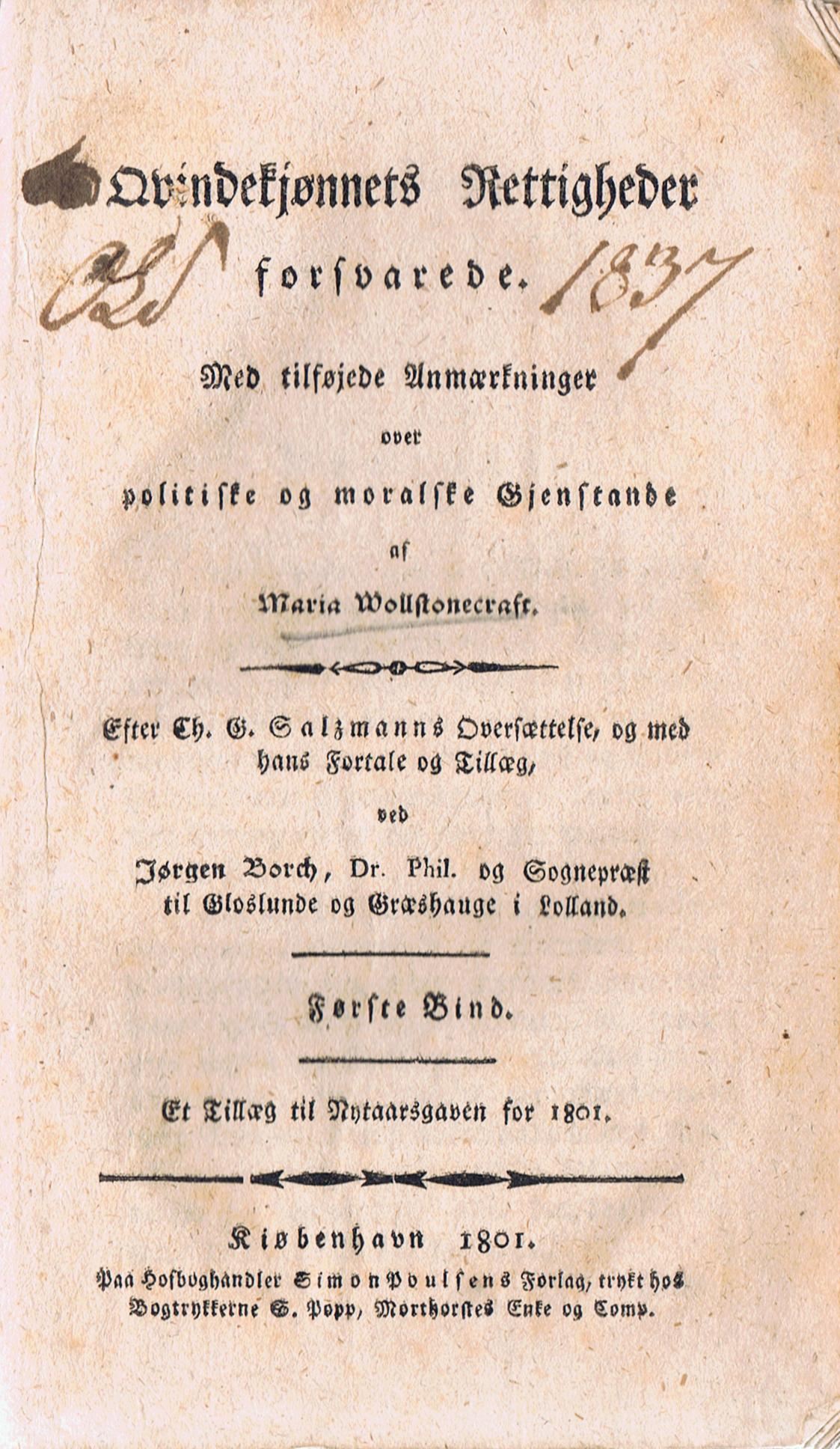 Title page from Danish translation of Mary Wollstonecraft's Vindication of the Rights of Woman from 1801